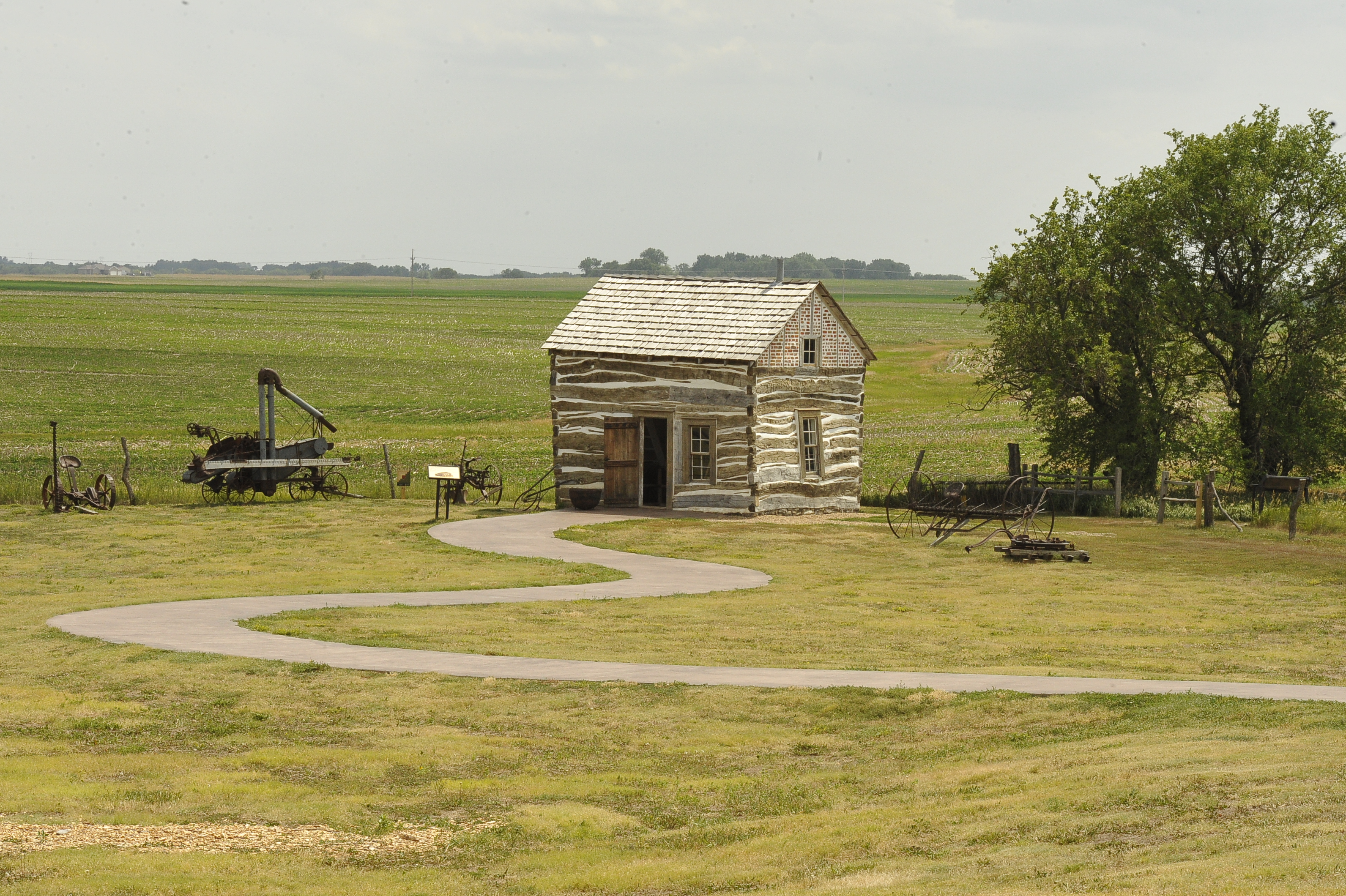 The Palmer-Epard Cabin was built in 1867 from mixed hardwoods, by George W. Palmer. It now sits just outside the Homestead Heritage Center inside of the park.